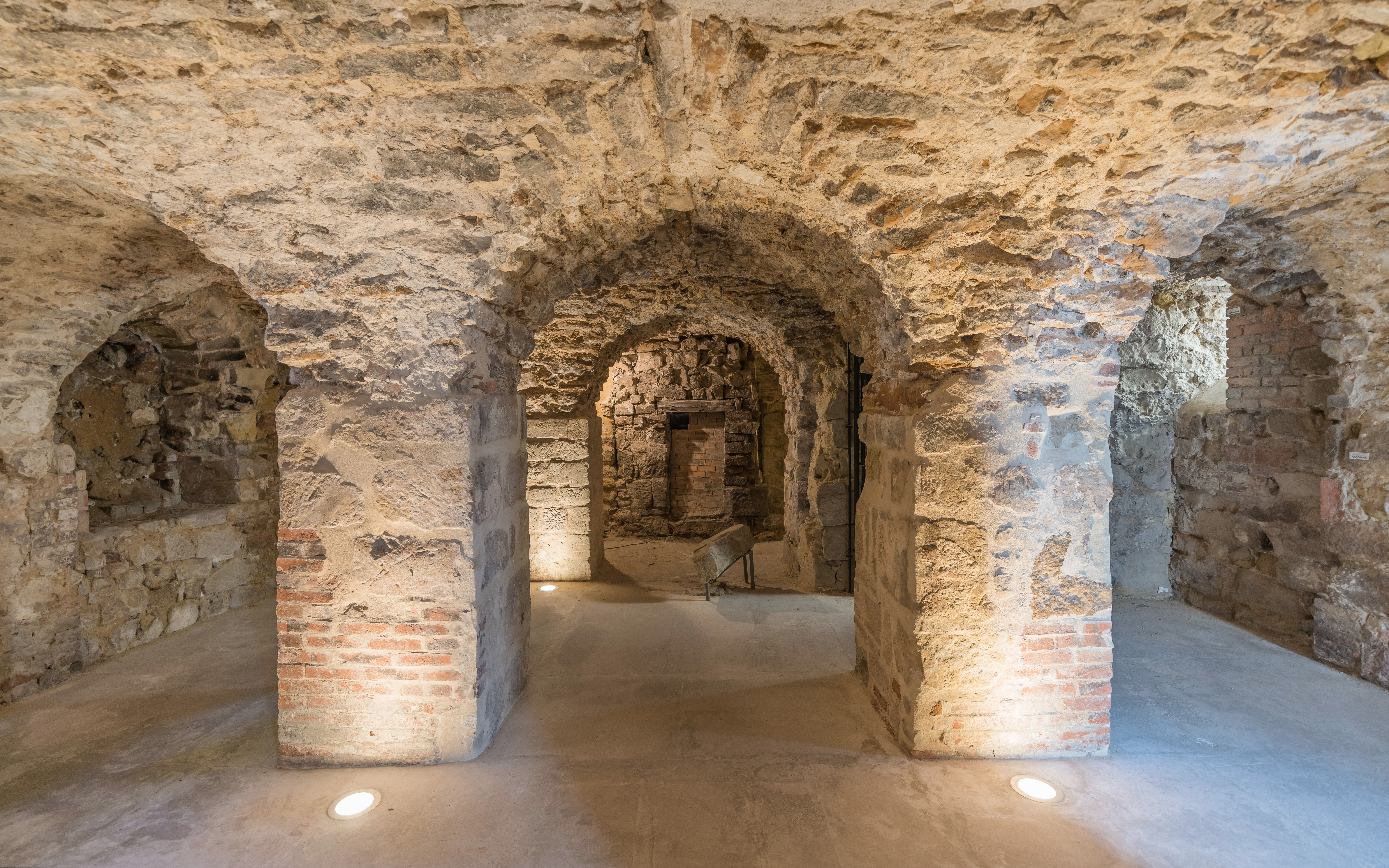 Remains of former monastery church on Münzenberg Hill in Quedlinburg, Germany